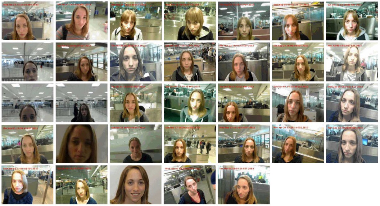 Runa Sandvik, since March 2016 The New York Times senior director of cyber security, requested four years worth of Department of Homeland Security photos taken when she entered the USA.